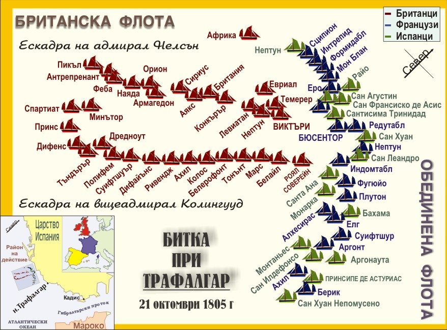 Тhe Battle of Trafalgar - map